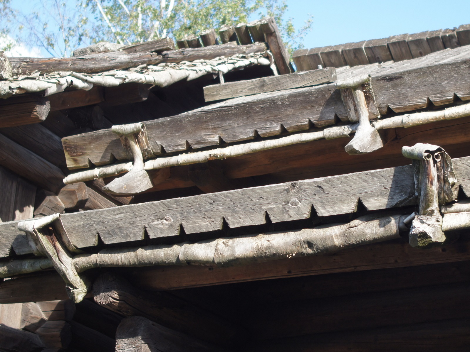 Moragården, Skansen - Stockholm - roof construction of the shed